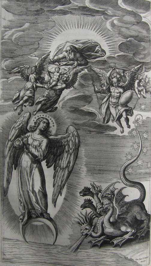 The Apocalyptic Woman from the Book of Revelation, illustration from the Vestigatio arcani sensus in Apocalypsi (1614) of Luis del Alcázar.